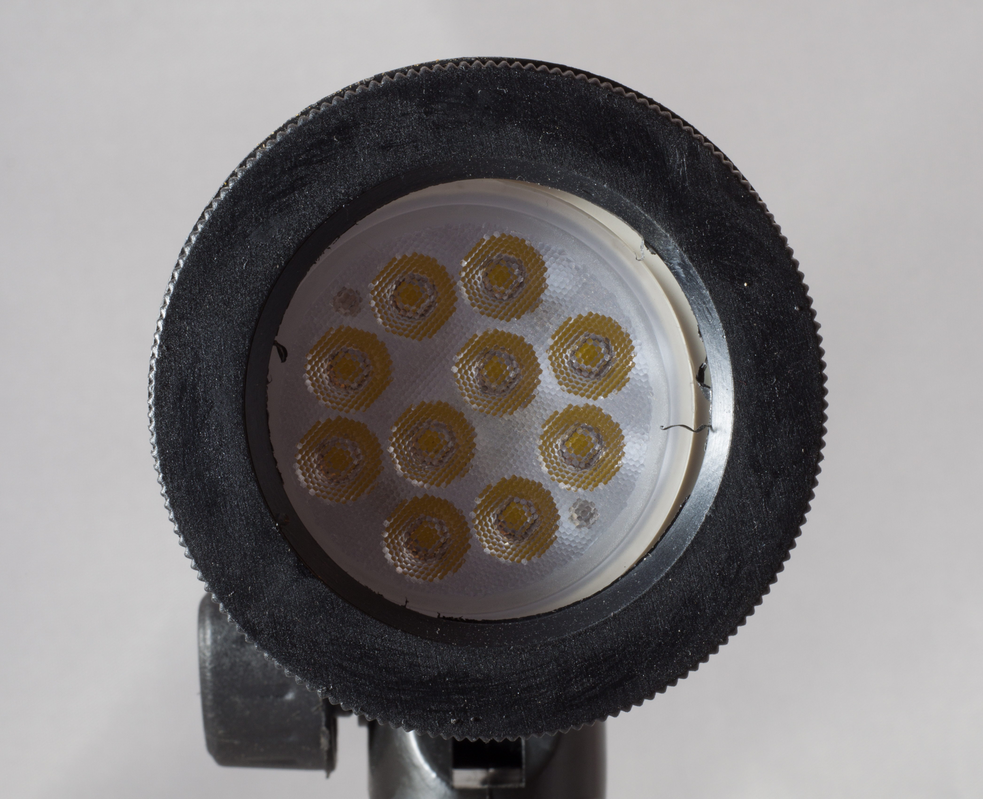 An LED light. Another of these lights is providing illumination for this photograph.